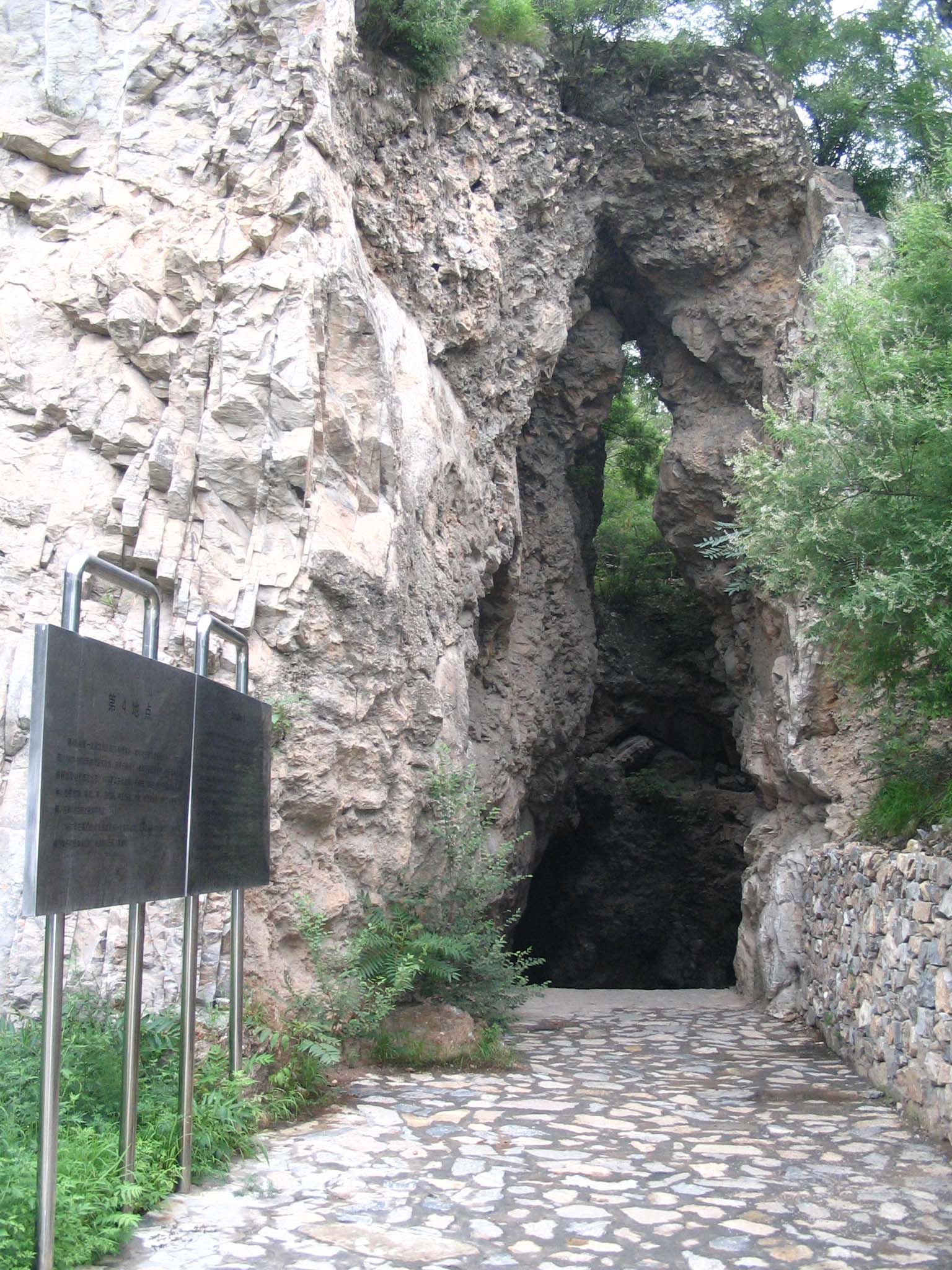 locality 4 of zhoukoudian 周口店第4地点